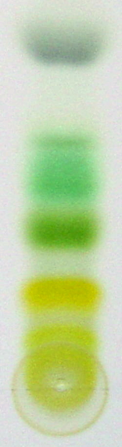 Chromatography of chlorophyll – Step 7